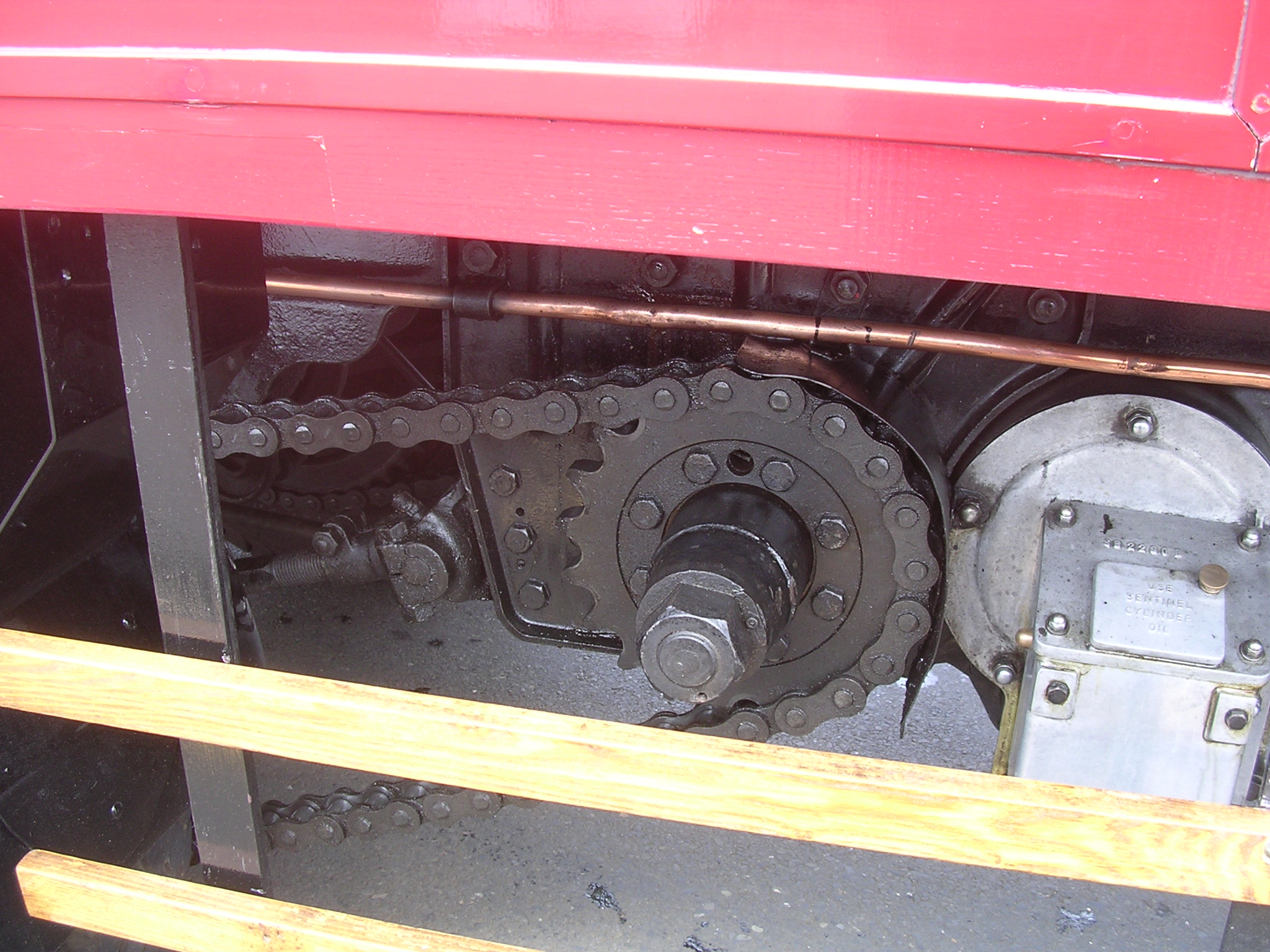 Steam bus chain drive